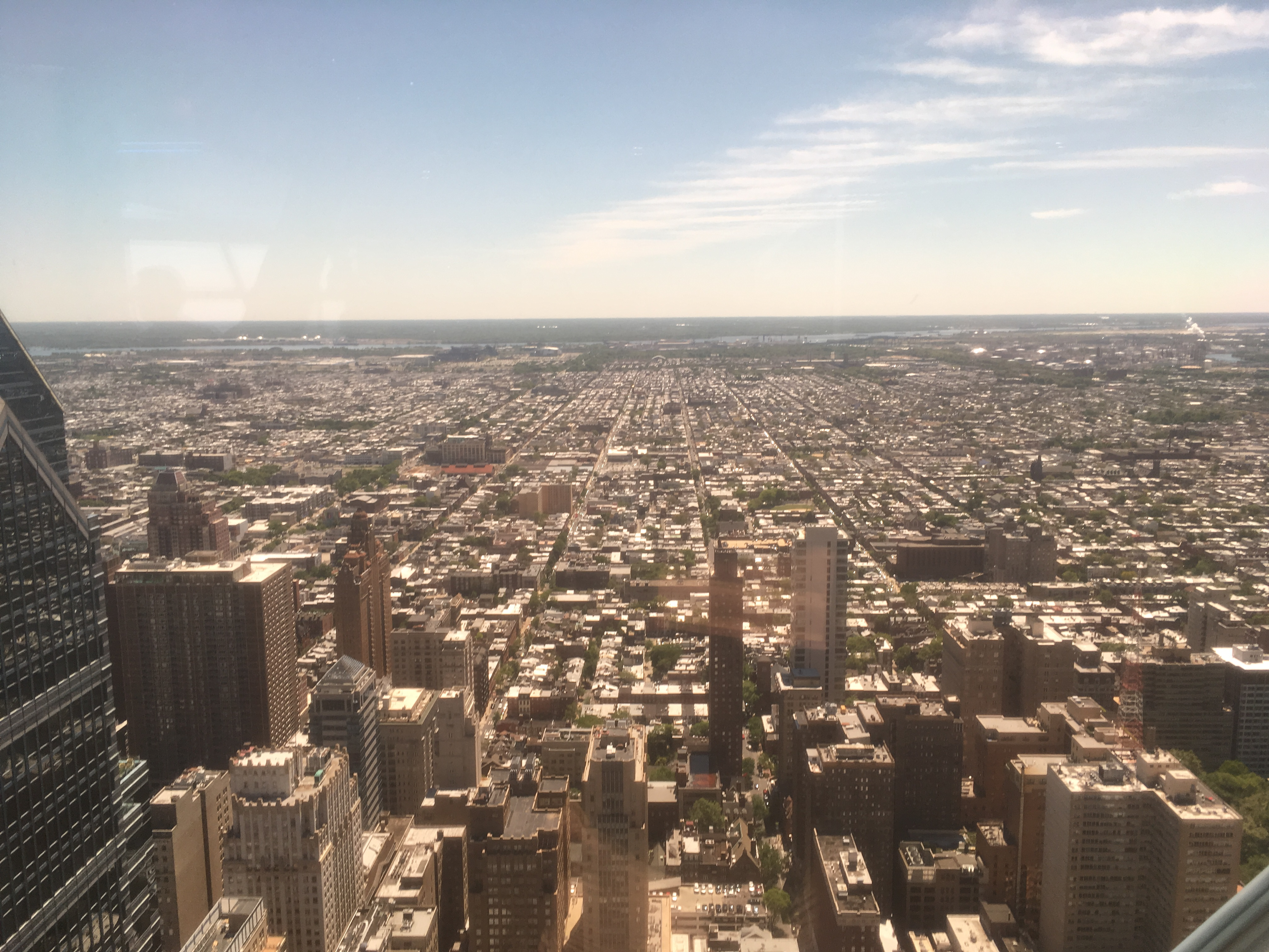 A view of South Philadelphia from the One Liberty Observation Deck in Center City.